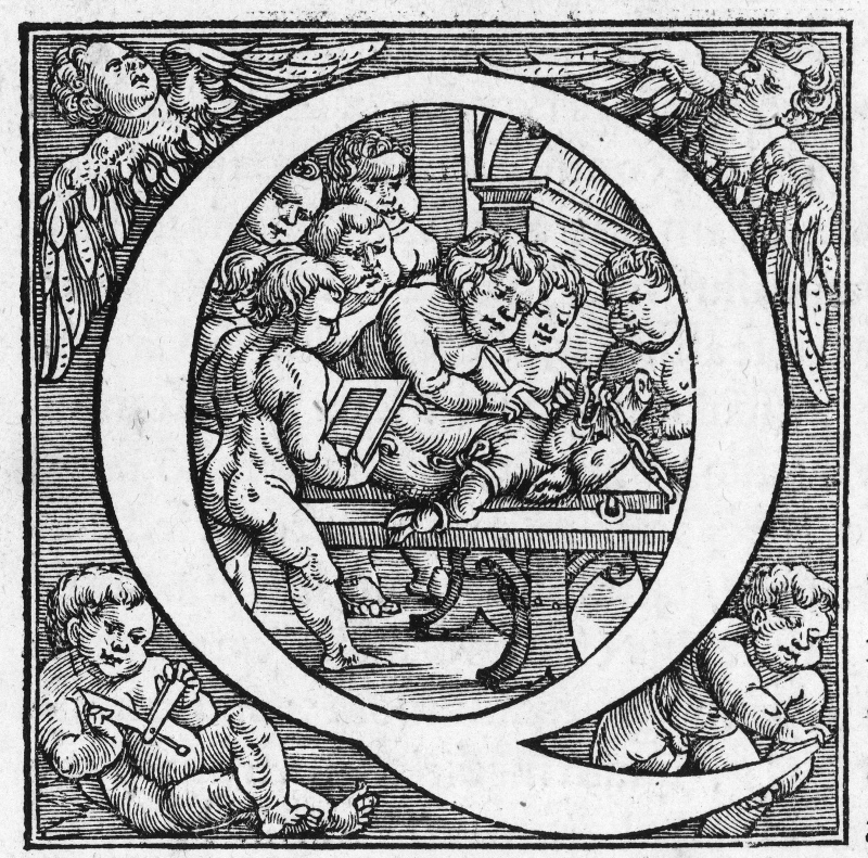 Dissected human body.